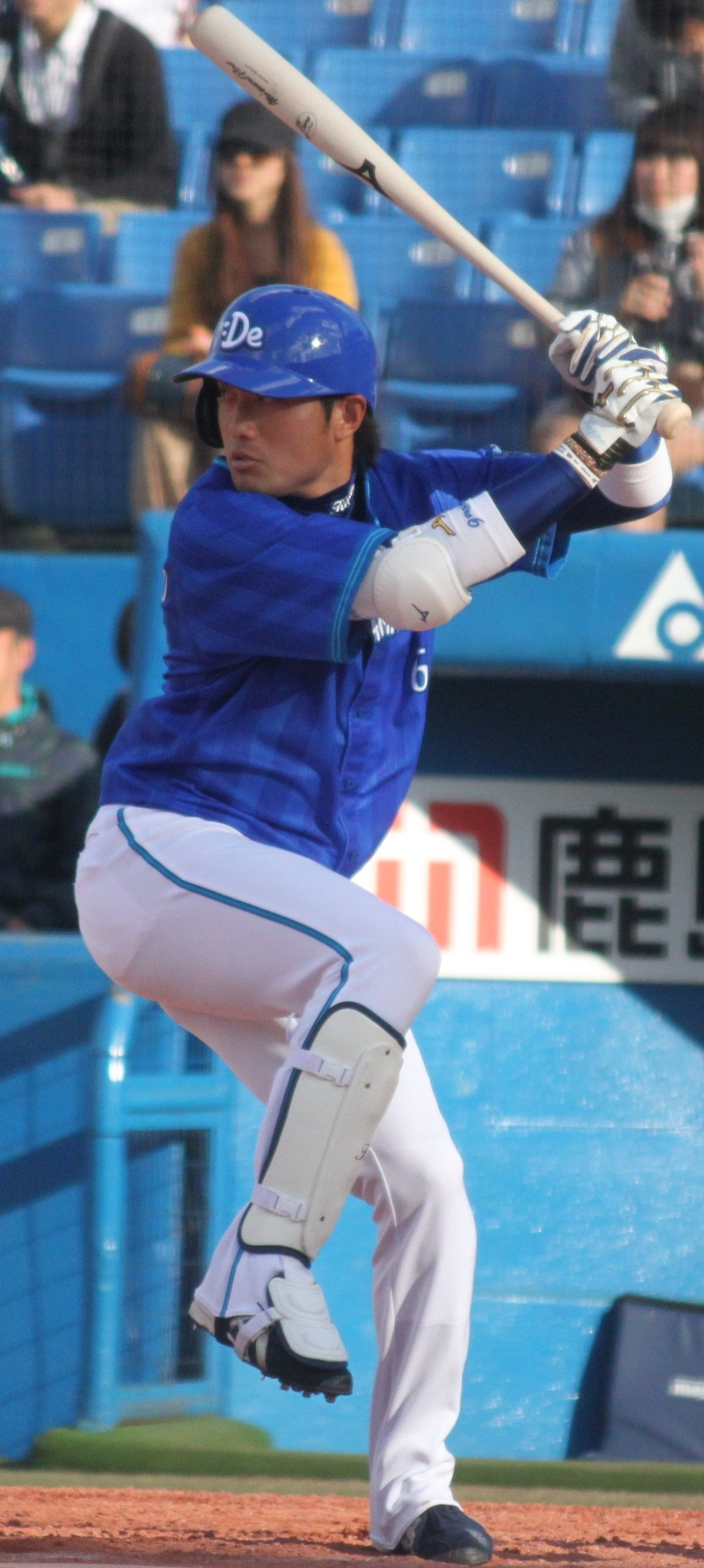 Keijiro Matsumoto, outfielder of the Yokohama DeNA BayStars, at Meiji Jingu Stadium.